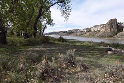 Upper Missouri River Breaks National Monument, Montana, United States